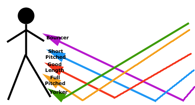 Diagram showing the names and bounce heights of the different lengths of cricket delivery. Created by User:MattDP on 25 August 2005.